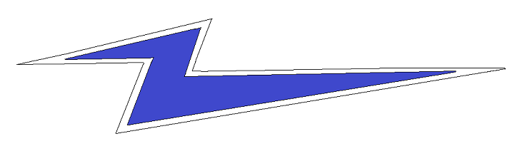 Emblem for Stab Zerstorergeschwader 2 (Heavy Fighter Wing 2), German Air Force (Luftwaffe) during World War II